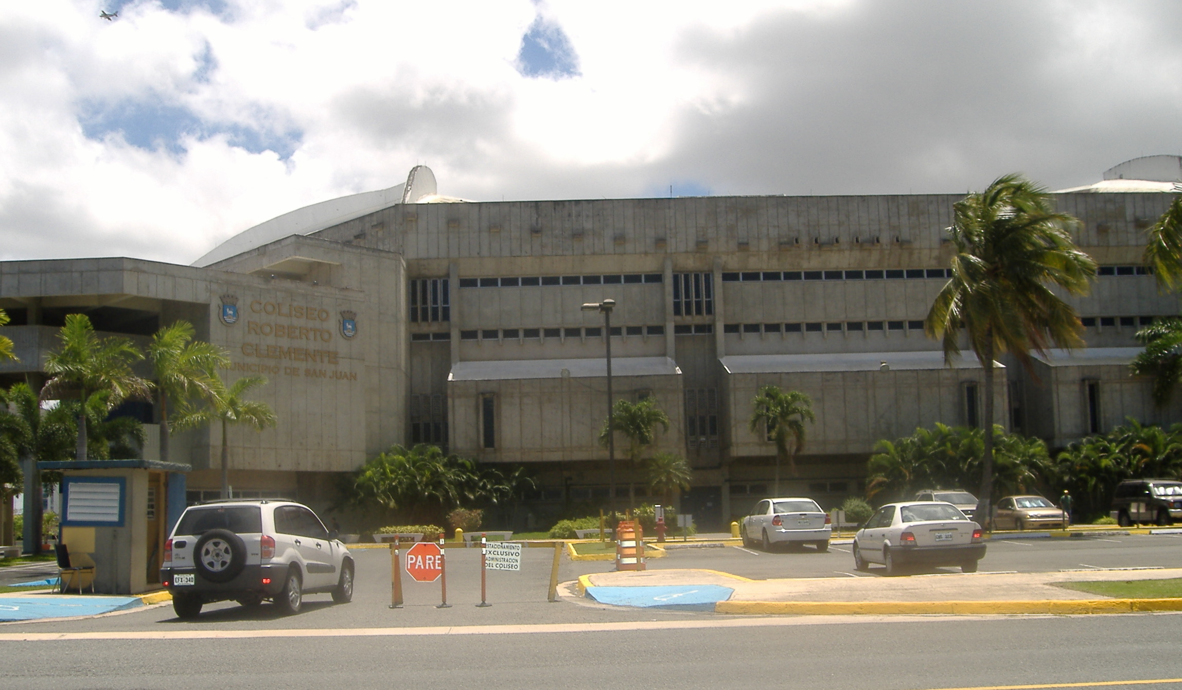 Picture of Roberto Clemente Coliseum Stadium in San Juan, Puerto Rico.